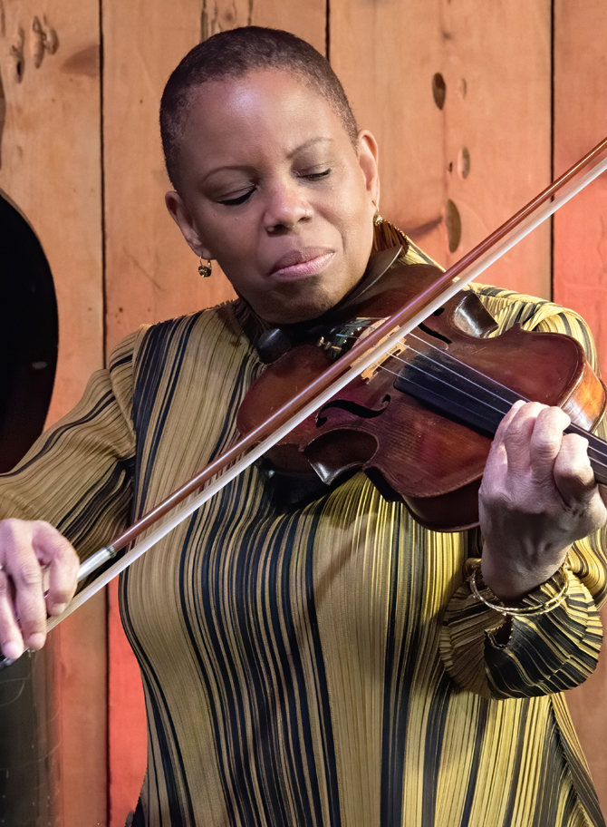 Regina Carter at Bach Dancing & Dynamite Society, Half Moon Bay CA 3/1/20. Photo: Brian McMillen /